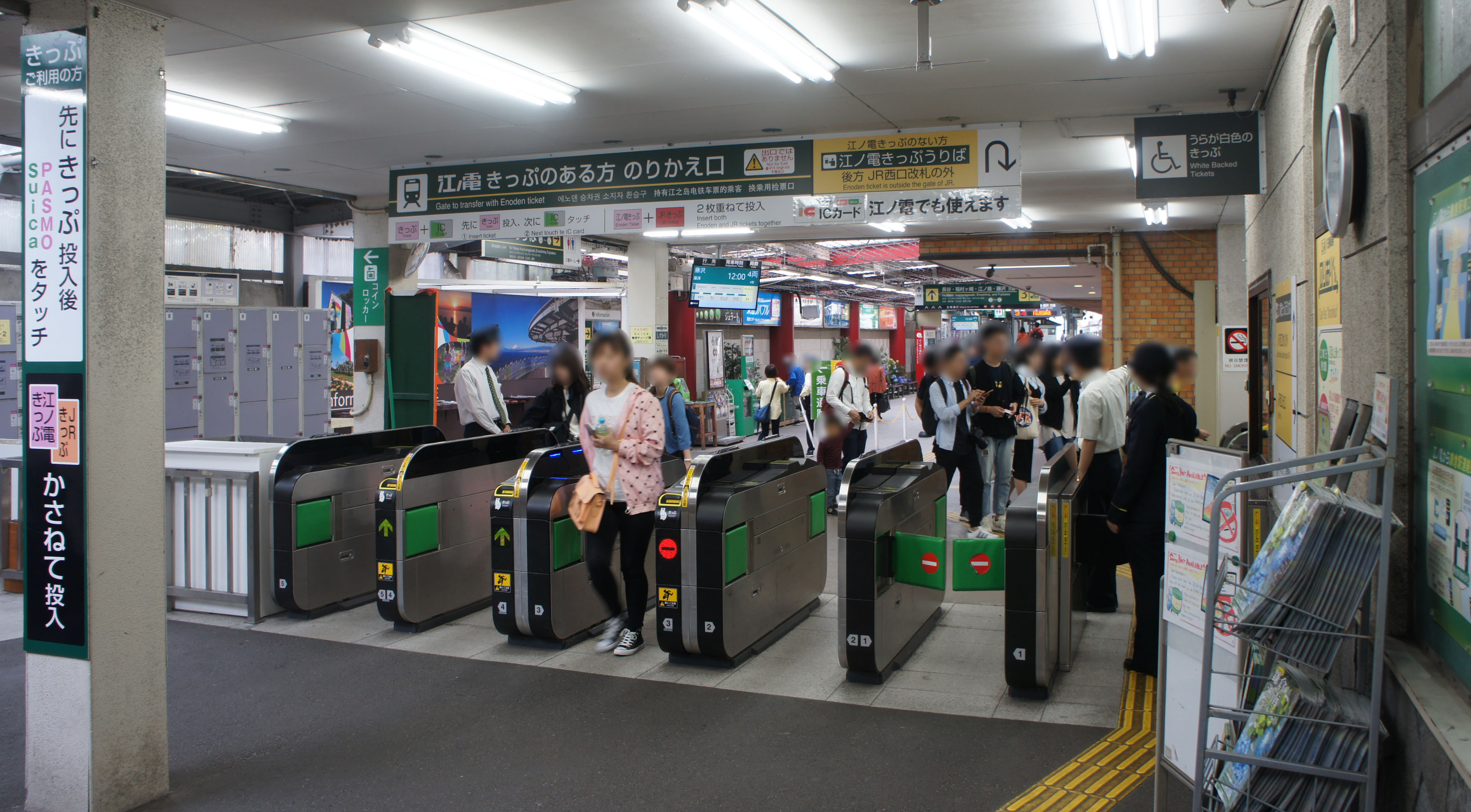 Enoden Transfer Gates of JR Yokosuka-Line Kamakura Station